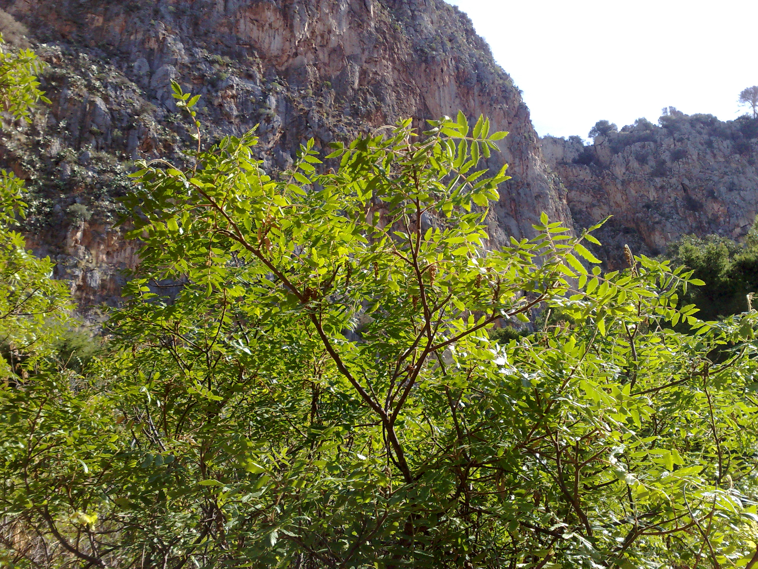 Rhus coriaria (Sumac) in the Favorita park, Palermo (Riserva naturale Monte Pellegrino) Rhus coriaria (Sommacco) nel parco della Favorita, Palermo (Riserva naturale Monte Pellegrino)